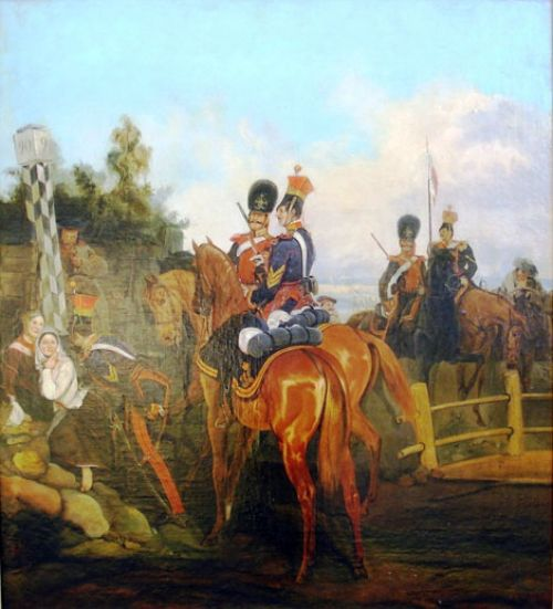 This is a photo of Belarusian heritage monument. Reference number: 423Ж000024 ( WLM)